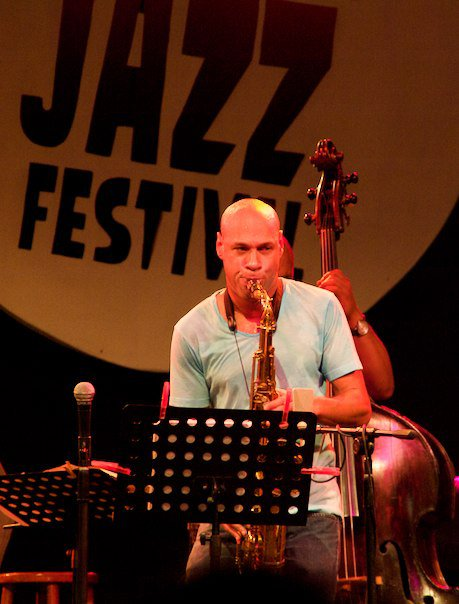 Joshua Redman at Malta Jazz Festival 2010- Eric Santucci Photo